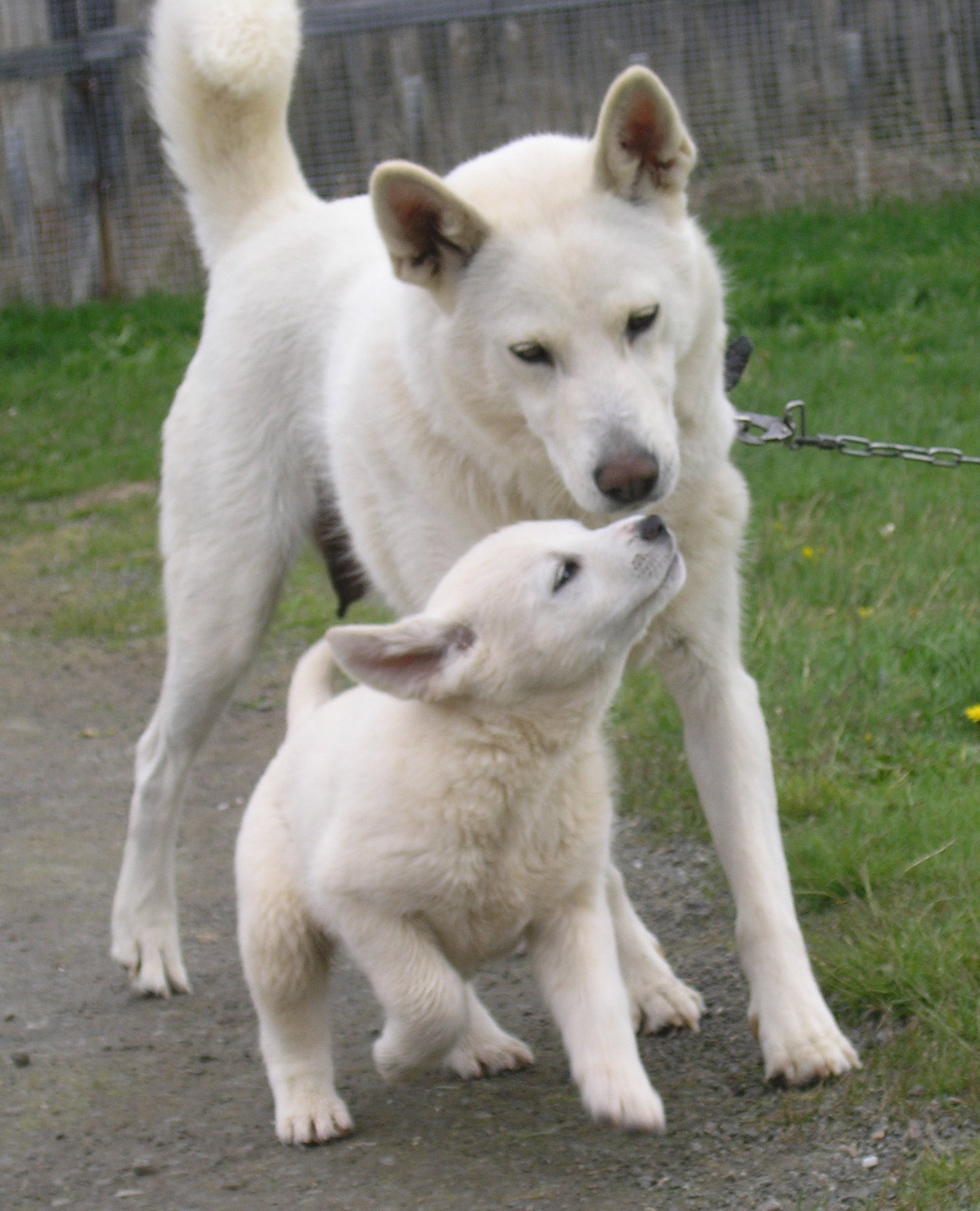 Swedish White Elkhounds (Svensk vit älghund): mother Kimba and Selma, 7 weeks